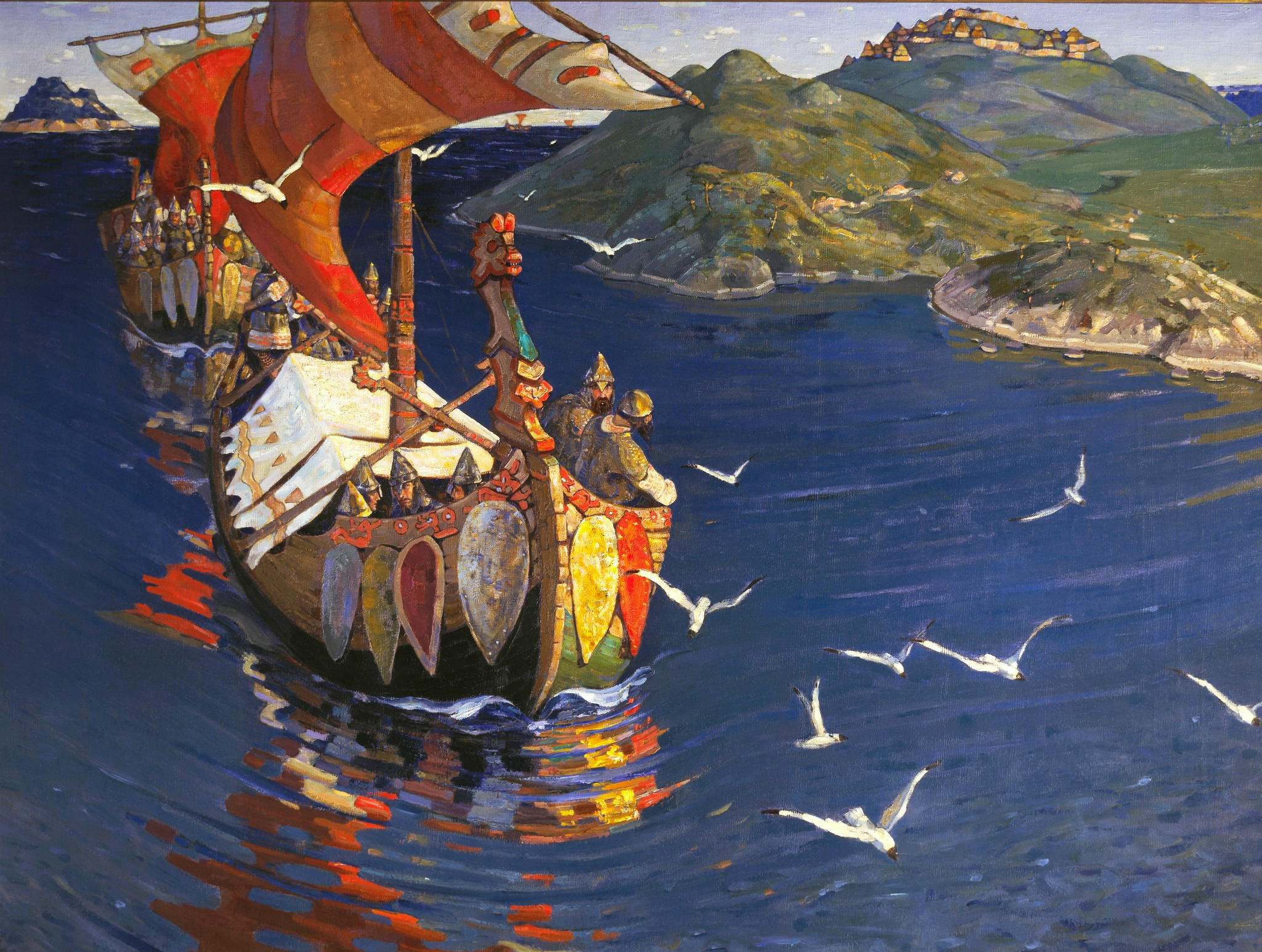 Nicholas Roerich "Guests from Overseas". From the series "Beginnings of Russia. The Slavs." 1901